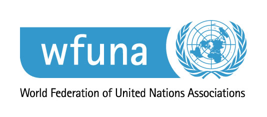 The logo of the world federation of UN associations (WFUNA)